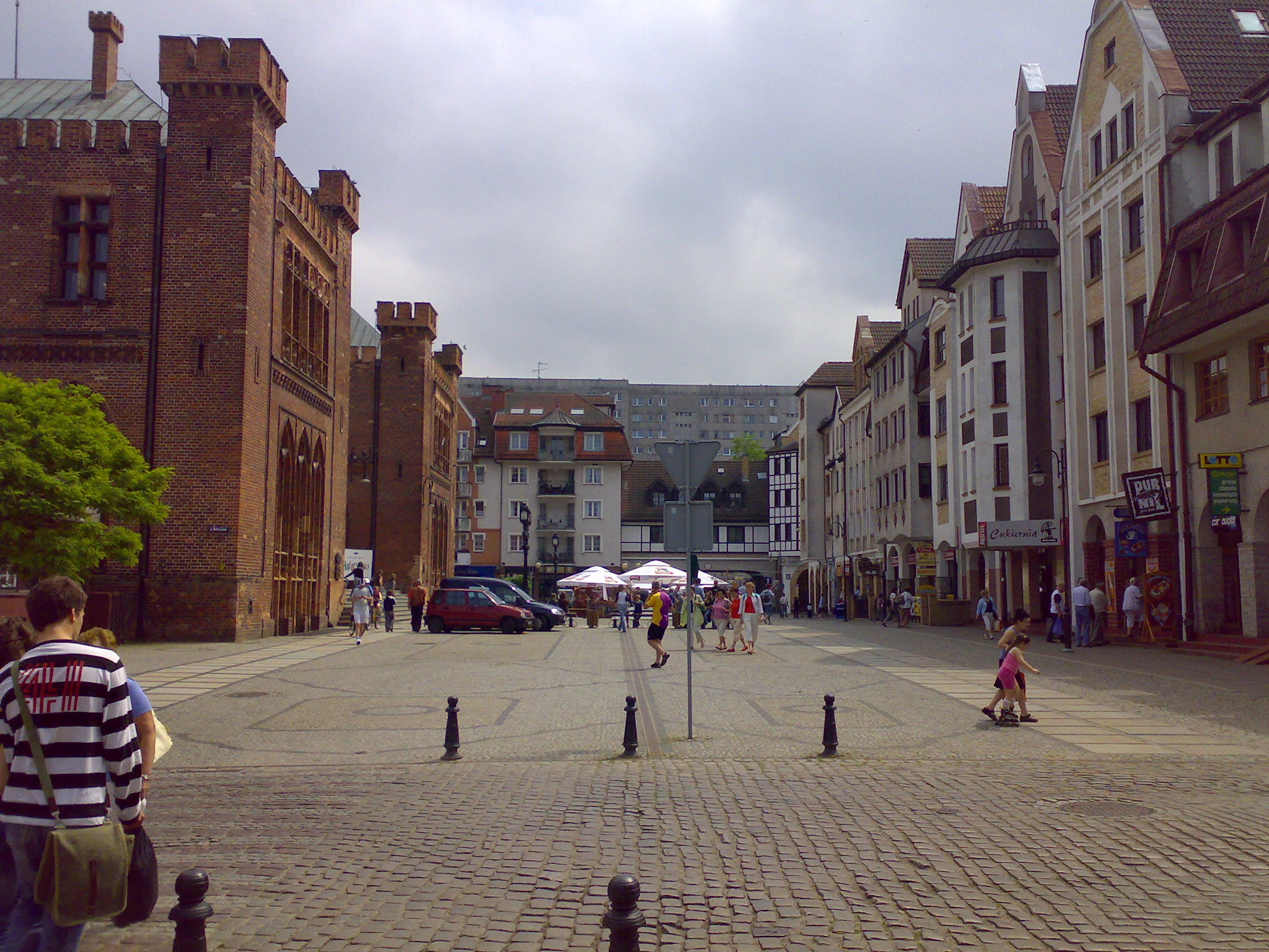 Ratuszowy Square in Kołobrzeg